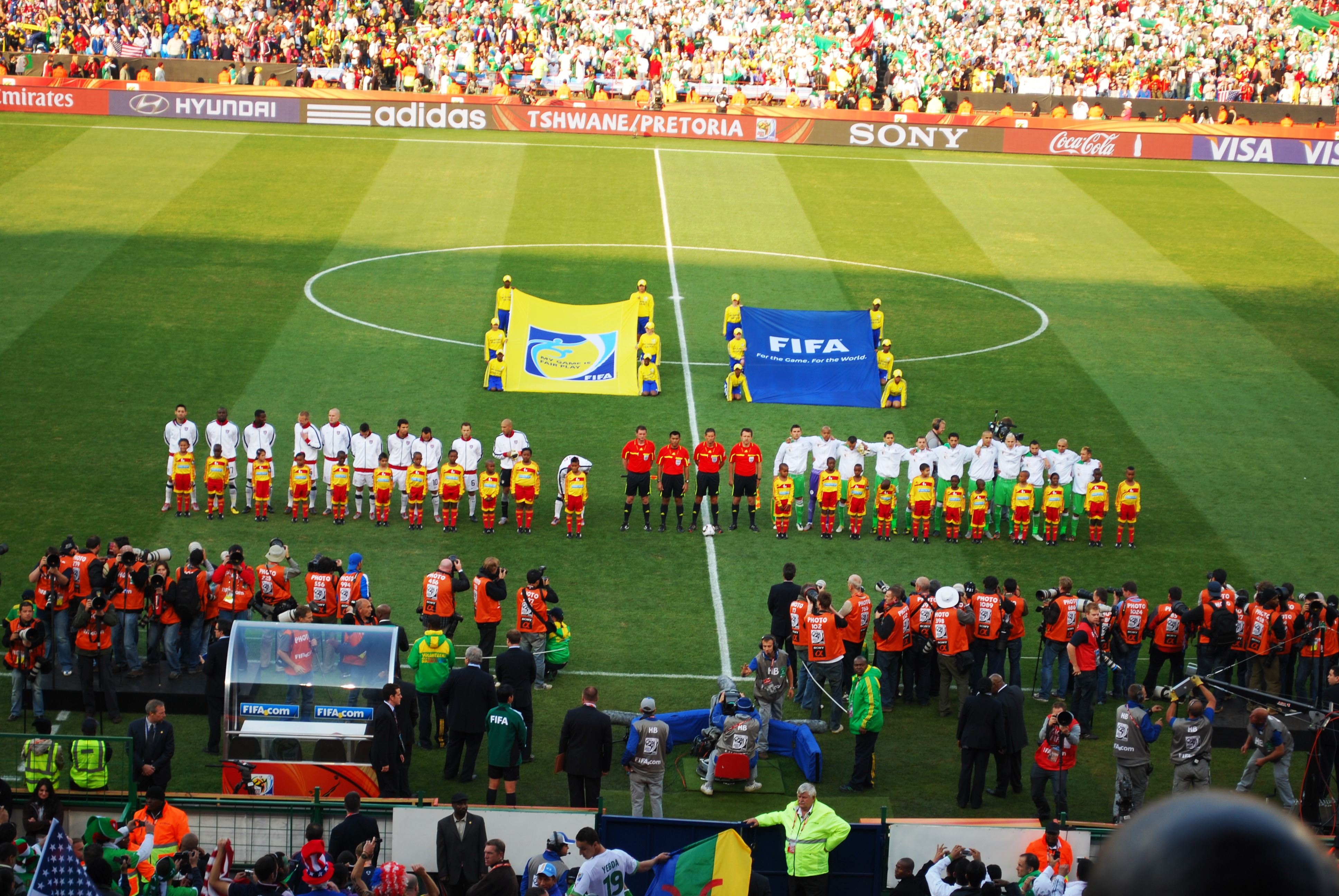 Players and fans stand for the national anthems of the United States and Algeria are played before their World Cup soccer match at Loftus Versfeld Stadium in Pretoria, South Africa, on June 23, 2010. [State Department photo/ Public Domain]